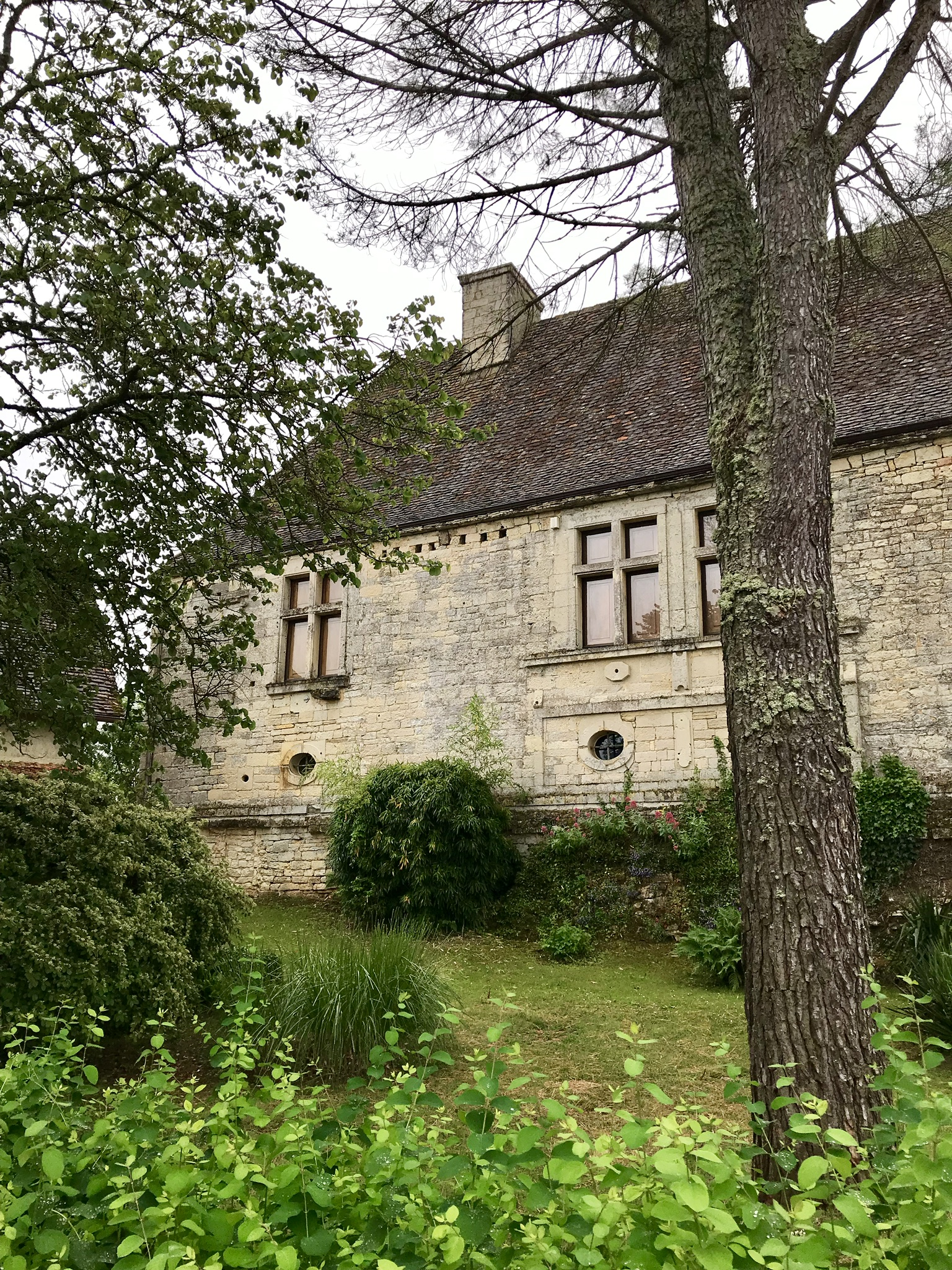 Façade chateau